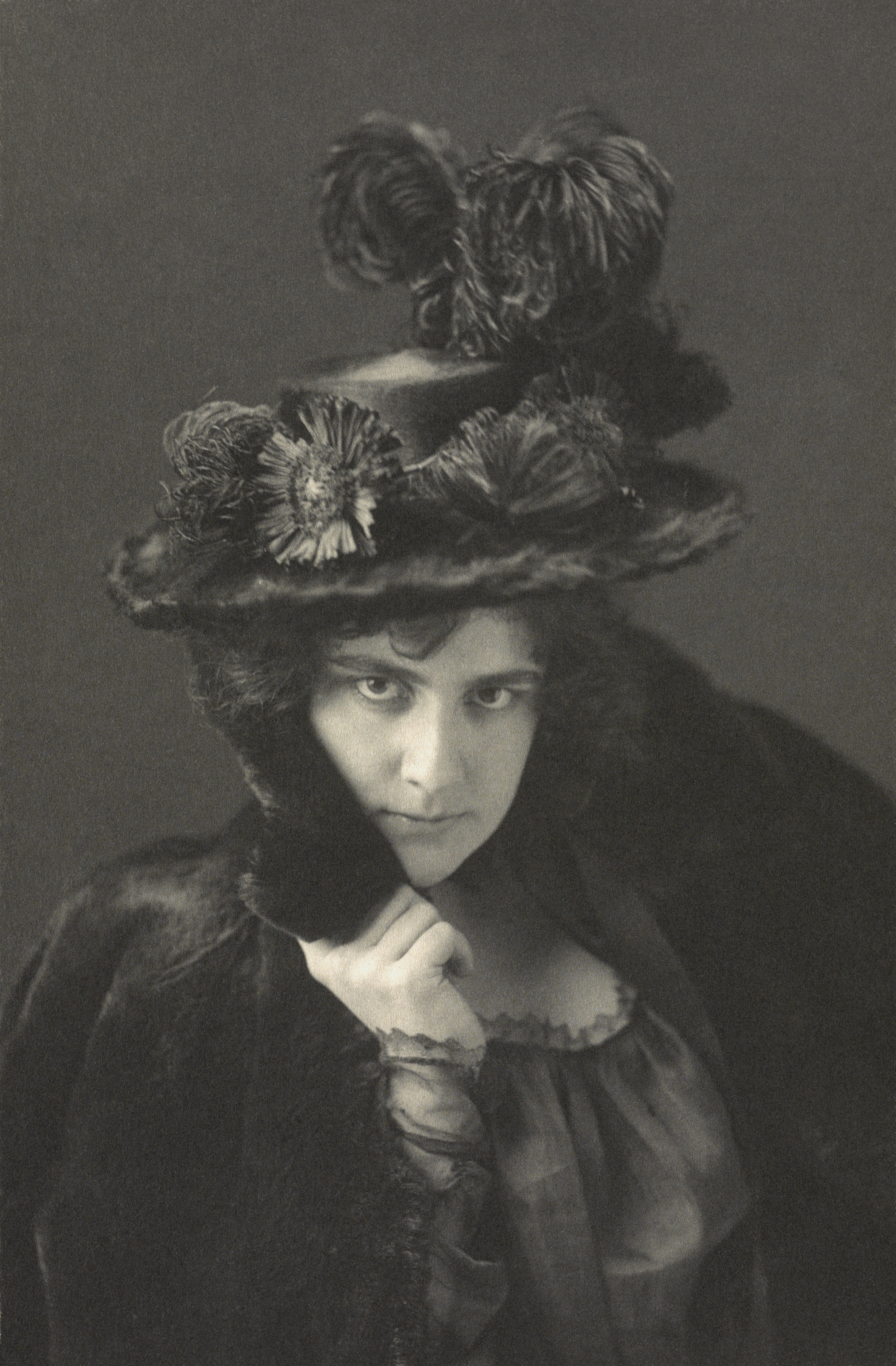 Circa 1895 platinum print of a photograph of graphic designer Ethel Reed by Frances Benjamin Johnston. Head-and-shoulders portrait, facing front, wearing hat and fur coat or cape, with right hand under collar.